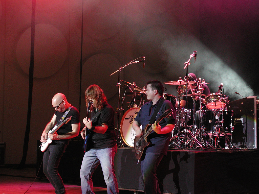 Joe Satriani (and band)